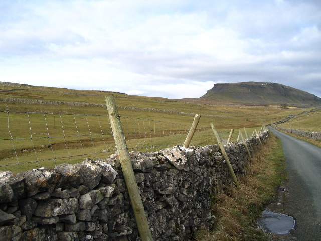 Silverdale Road. Looking North along Silverdale Road towards Penyghent.